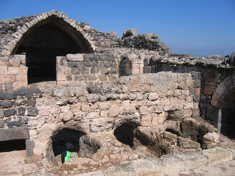 The kitchen and 3 stoves in Belvoir fortress, Israel.